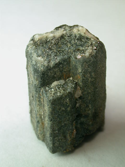 Kornerupine Locality: Mt Riddock Station, Harts Ranges (Hartz Ranges), Northern Territory, Australia Original description: A 2.3 by 1.5 cms terminated crystal. JSS specimen and photograph.